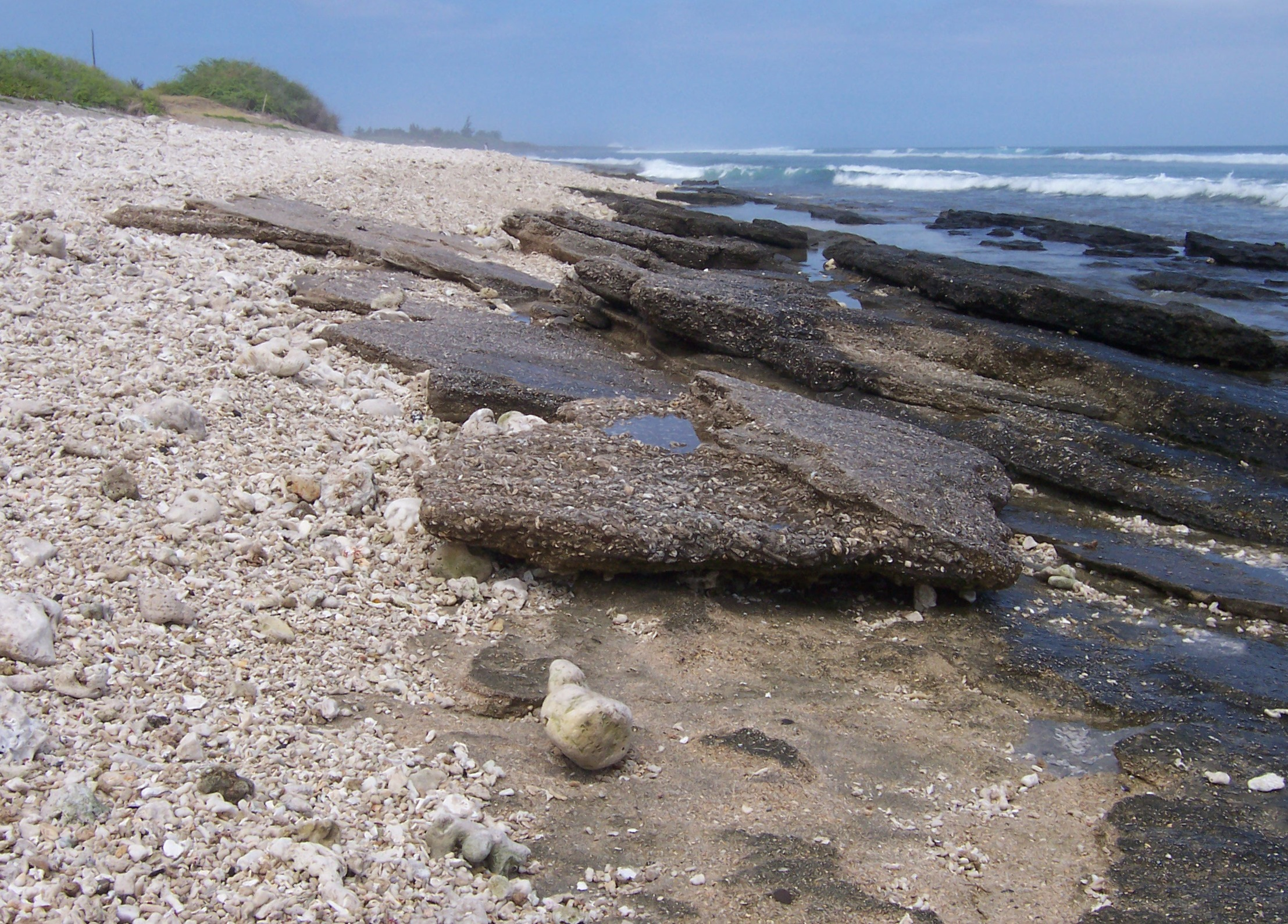 Beachrock along the shore of Saint-Leu Réunion island